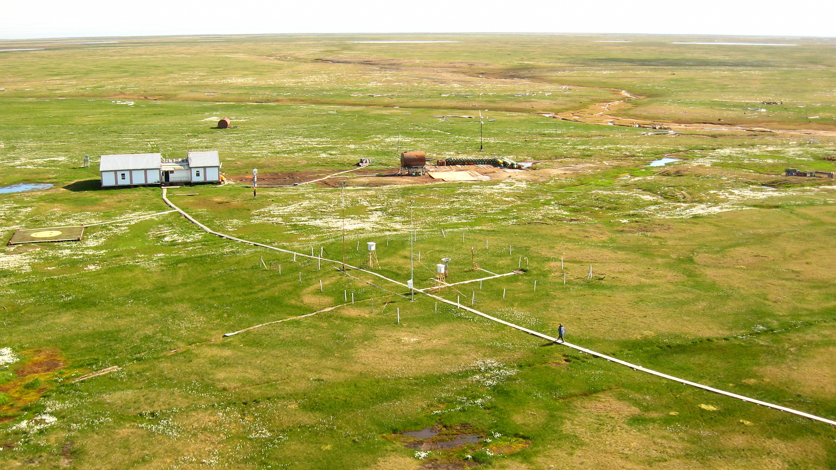 Popov Station